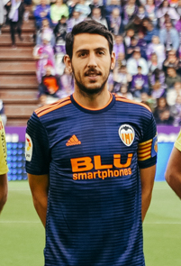 Real Valladolid - Valencia C. F., 38th fixture of the 2018-19 La Liga, May 18, 2019.